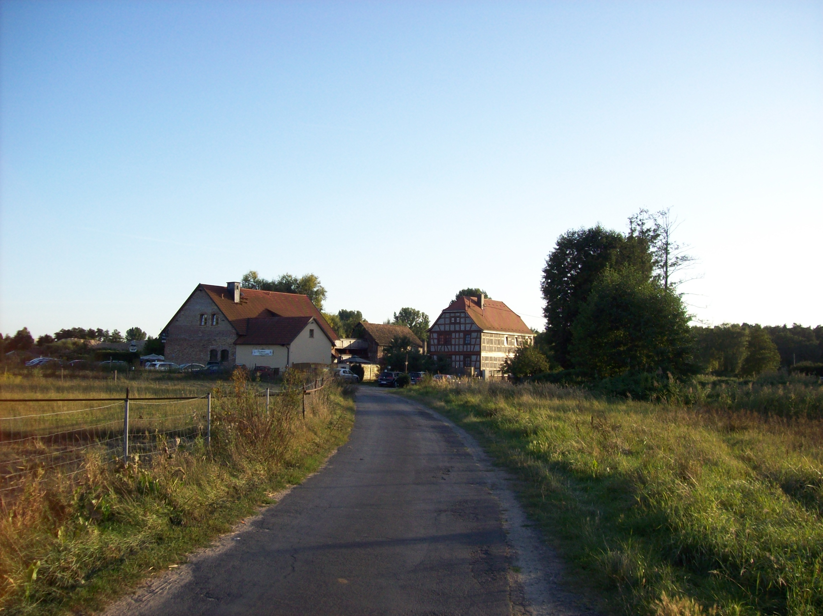 The Obermühle in the south of Bieber